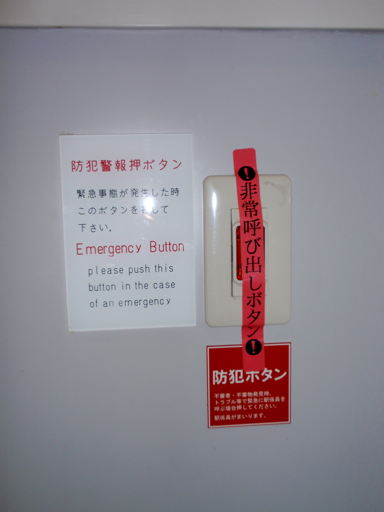 Emergency button in Japanese public toilet